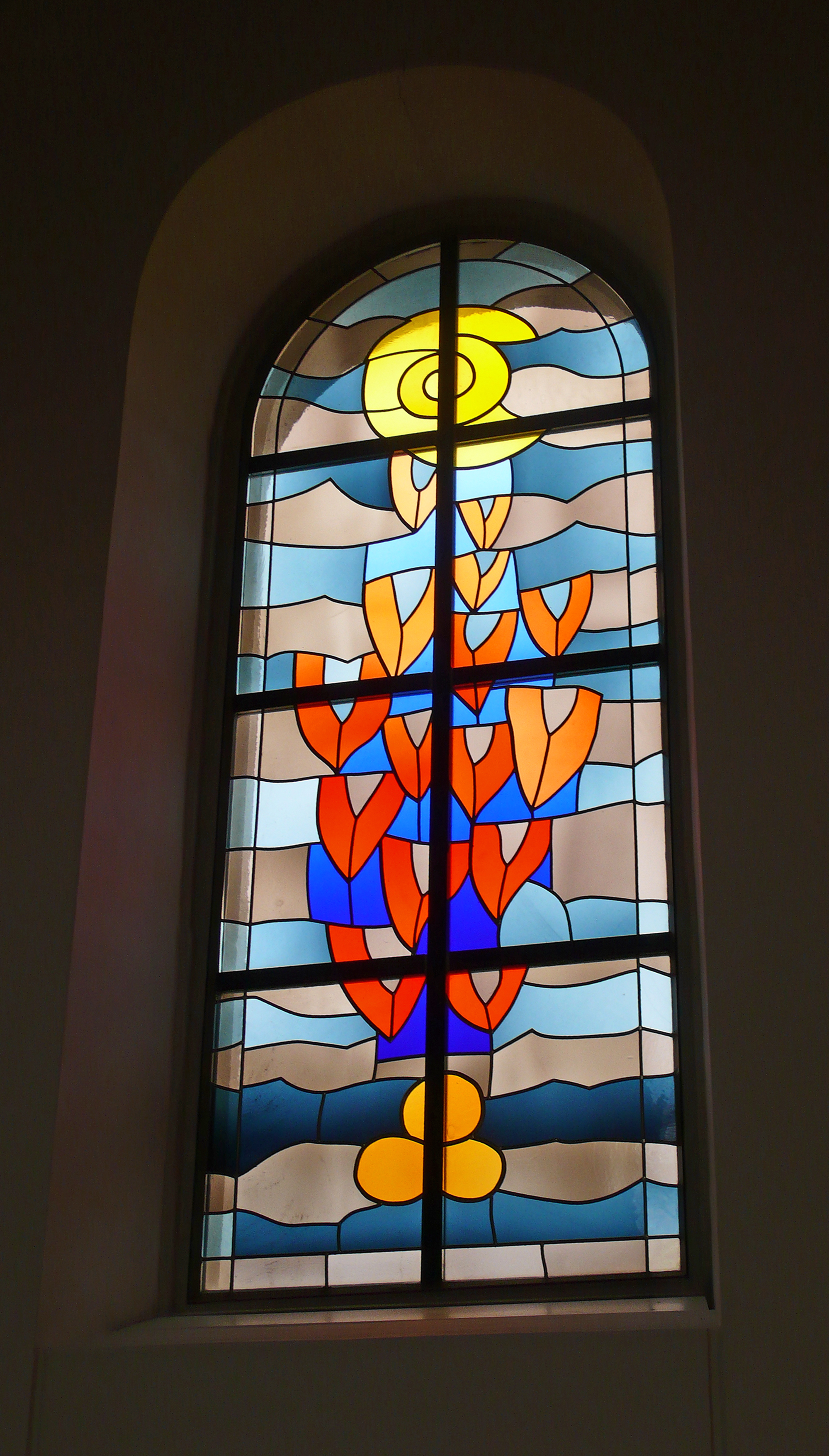 Stained glass windows in the church of Scherzingen, Switzerland.